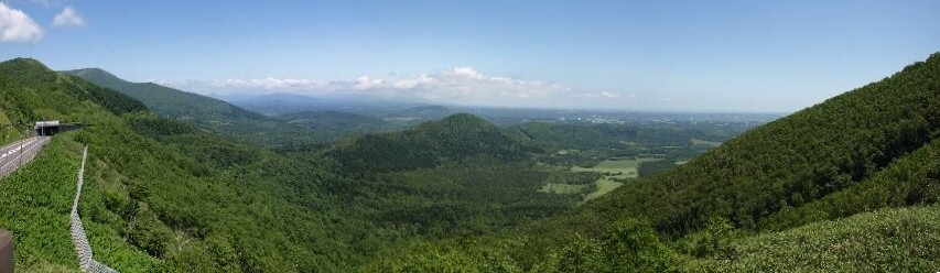 A view from Karikachi Pass, overlooking the Tokachi Plain.